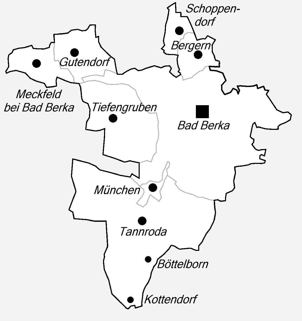 District-Maps of Bad Berka in Thuringia.